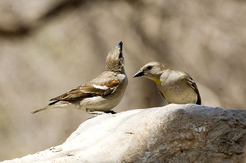 Chestnut-shouldered Petronias (Petronia xanthocollis) in Gujarat, India, 2005